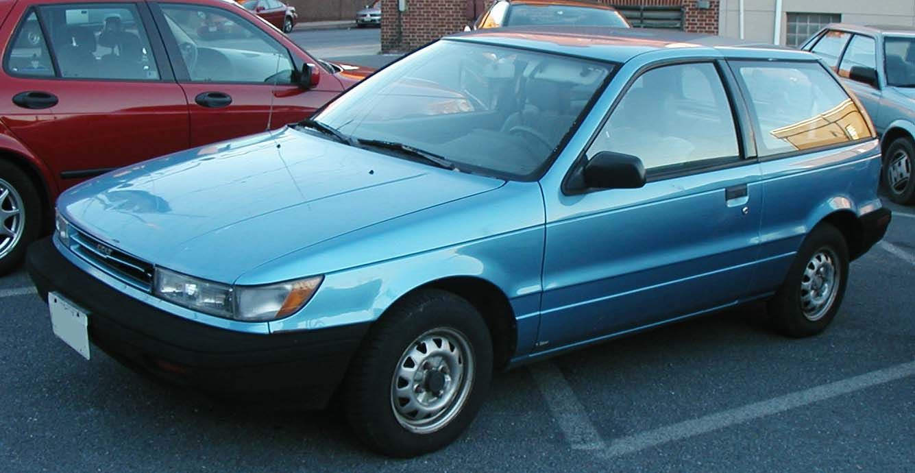 1989-1992 Dodge Colt hatchback photographed in USA.